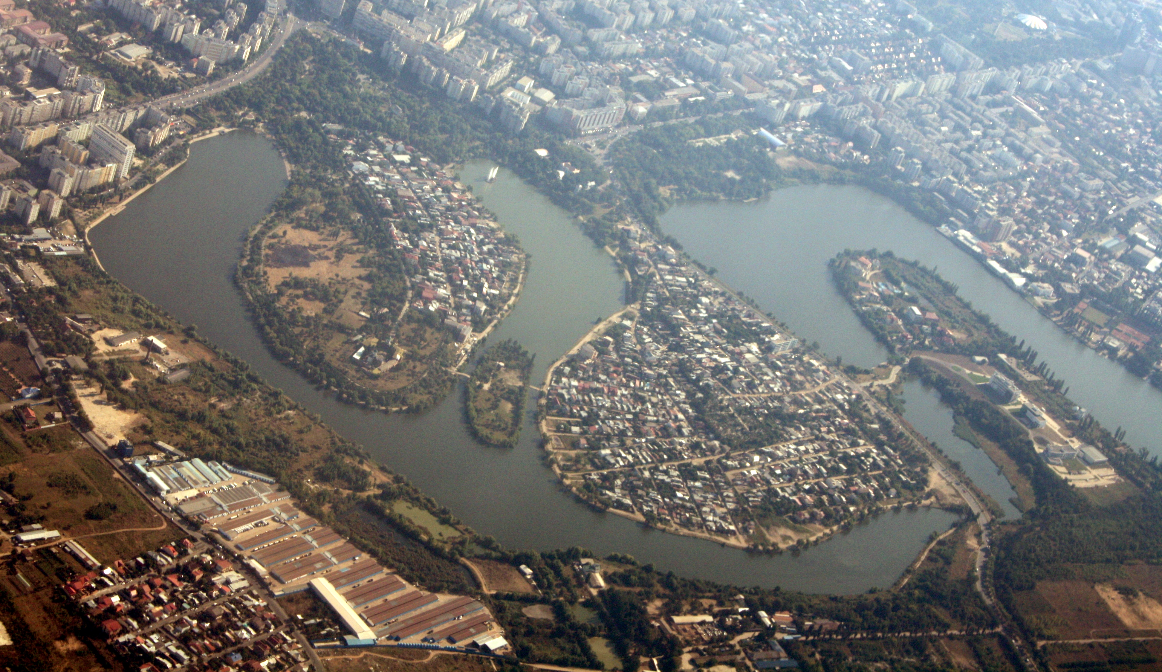 Lacul Plumbuita and Lacul Tei (Northern Bucharest) as seen from the air (airplane photo)